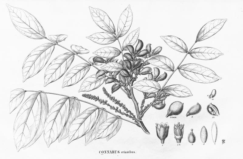 Illustration of Connarus erianthus